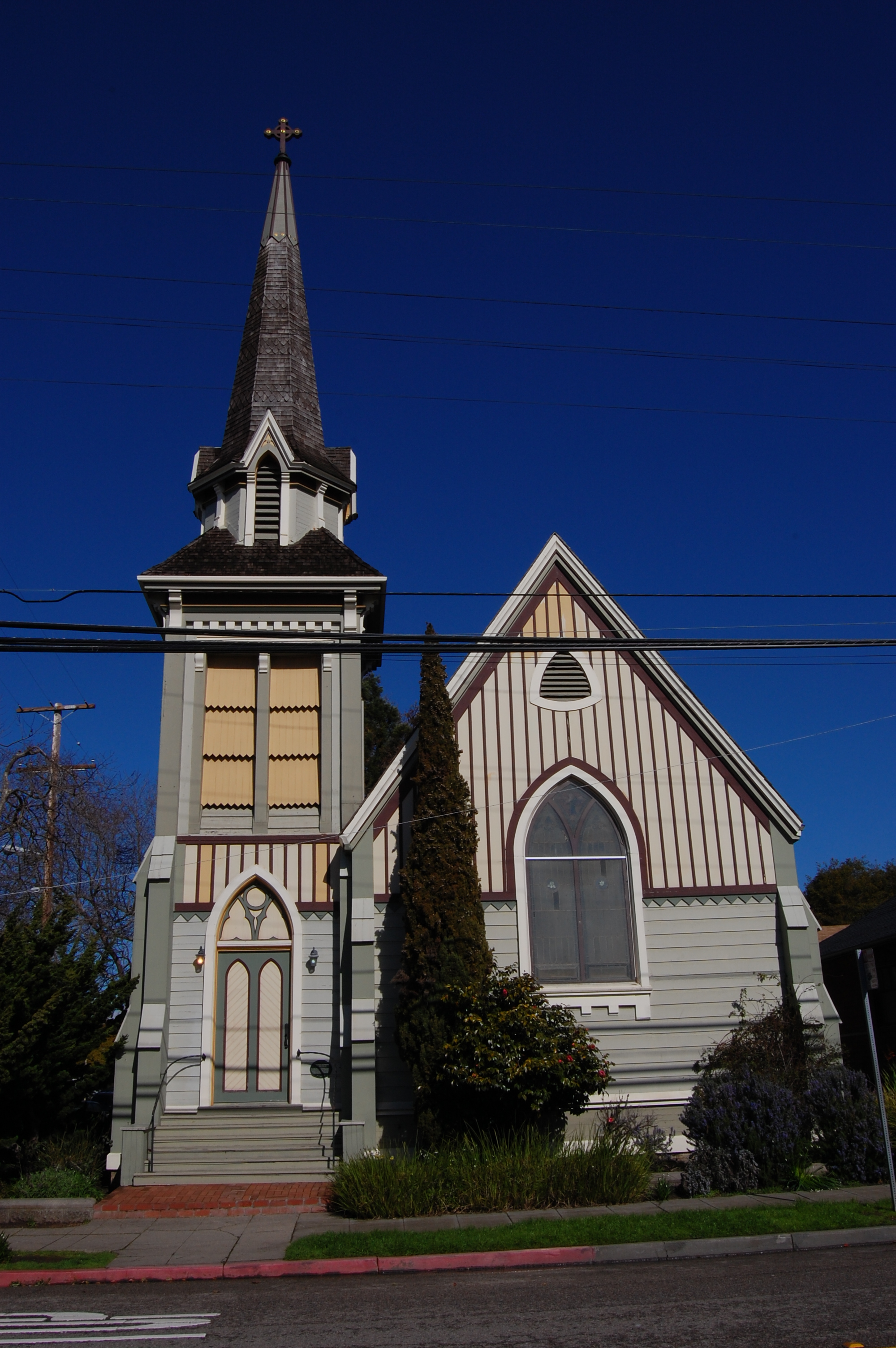 Episcopal Church of the Good Shepherd. 1001 Hearst Avenue. Berkeley, California, USA